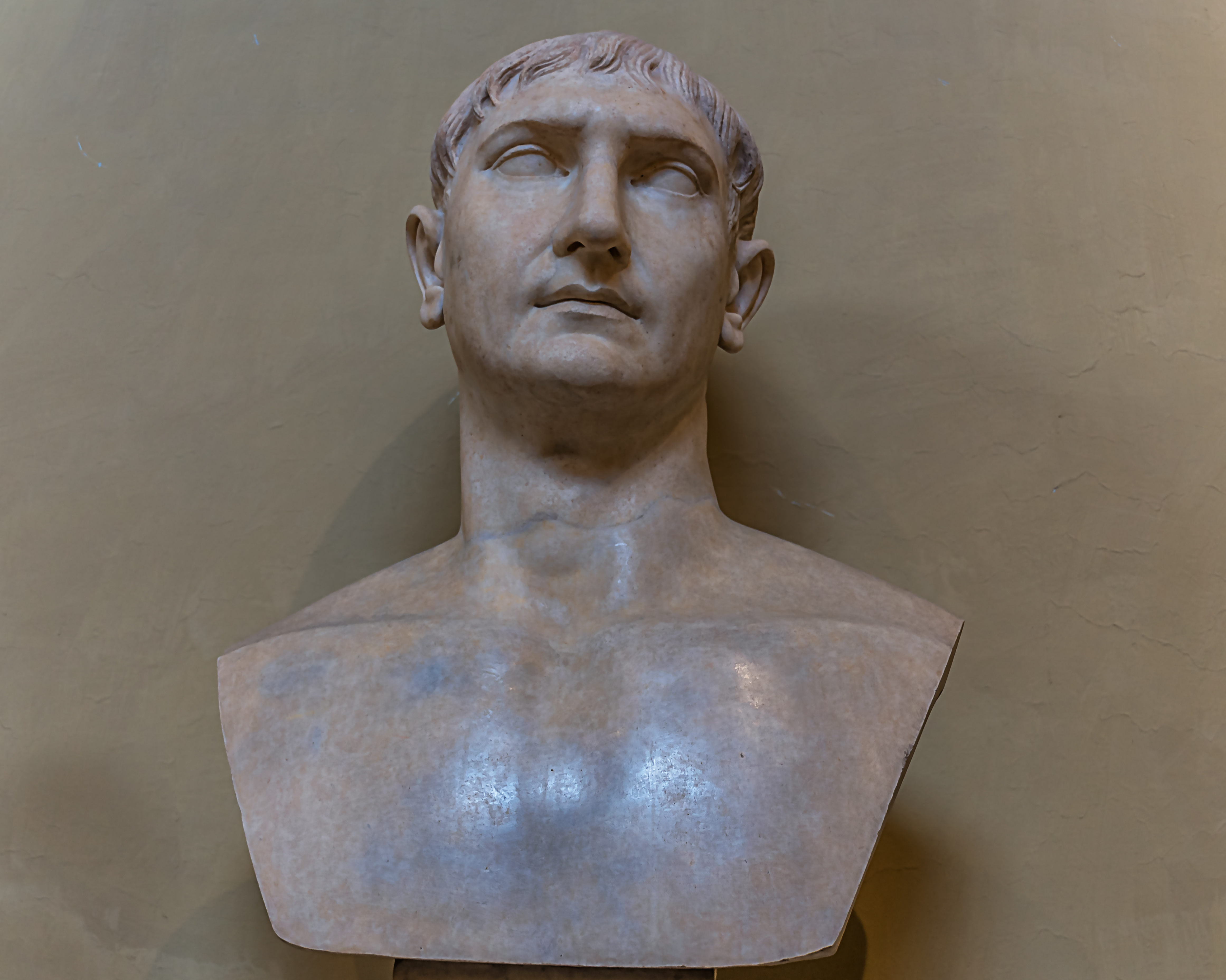 The portrait, placed on an modern bust, is highly idealized and was probably made following the death of the emperor in 117 AD, possibly commissioned by his successor, Hadrian. The bust is exhibited in the Vatican Museums (Inv. 1931).